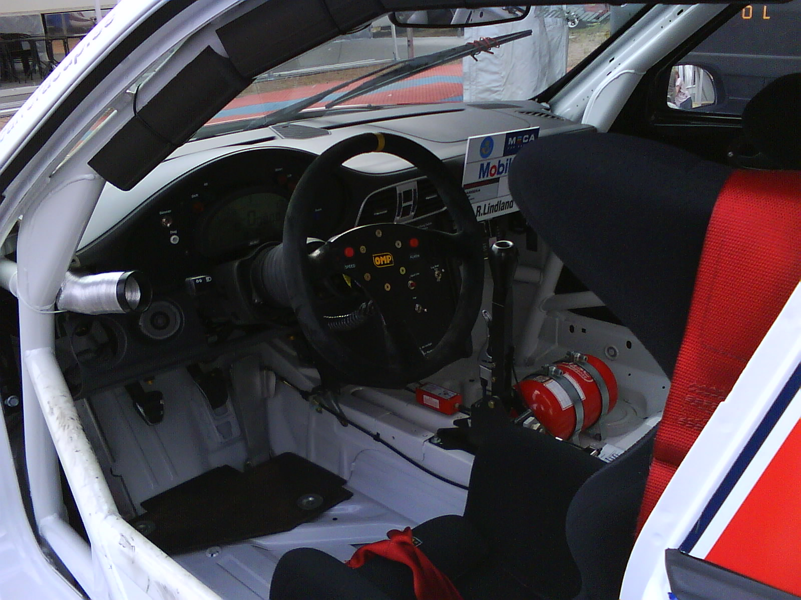 Inside Roar Lindland's Porsche Carrera Cup Scandinavia car at Falkenbergs Motorbana 2009.